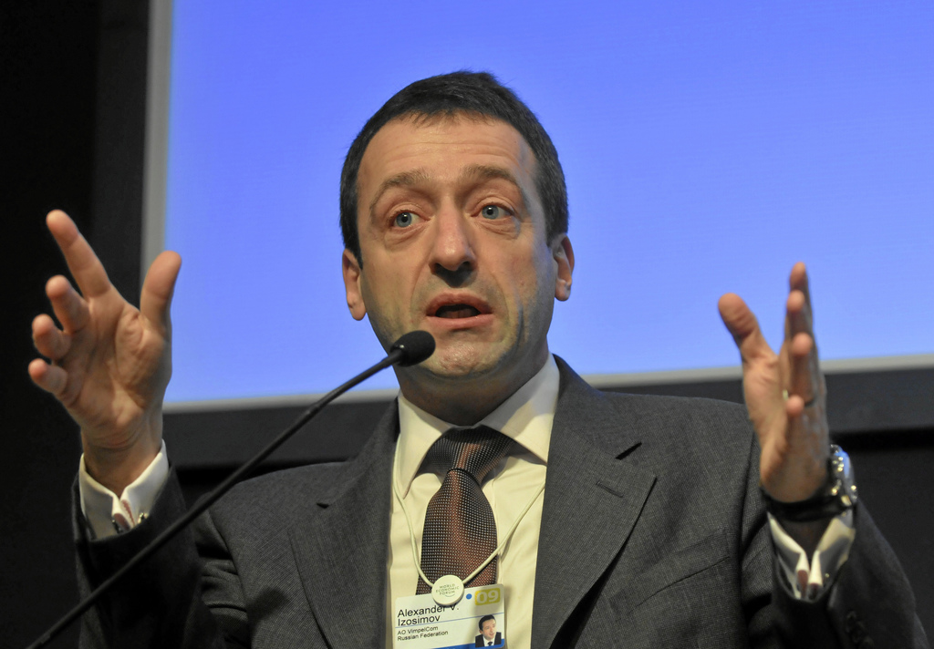 Alexander V. Izosimov, Chief Executive Officer, VimpelCom, Russian Federation; Chair, Global Agenda Council on the Future of Mobile Communications, is captured during the session 'Mobile Revolutions in the Developing World' at the Annual Meeting 2009 of the World Economic Forum in Davos, Switzerland, January 30, 2009.